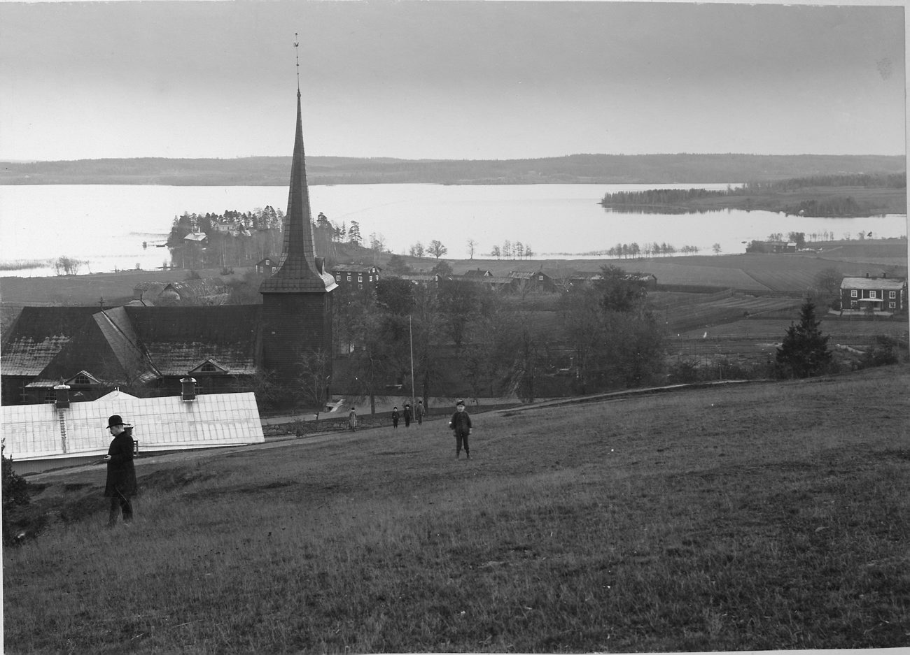 DIG97054 Karlskoga kyrkby från Räfåsen. The church village of Karlskoga, Sweden. Photo: Albin Andersson